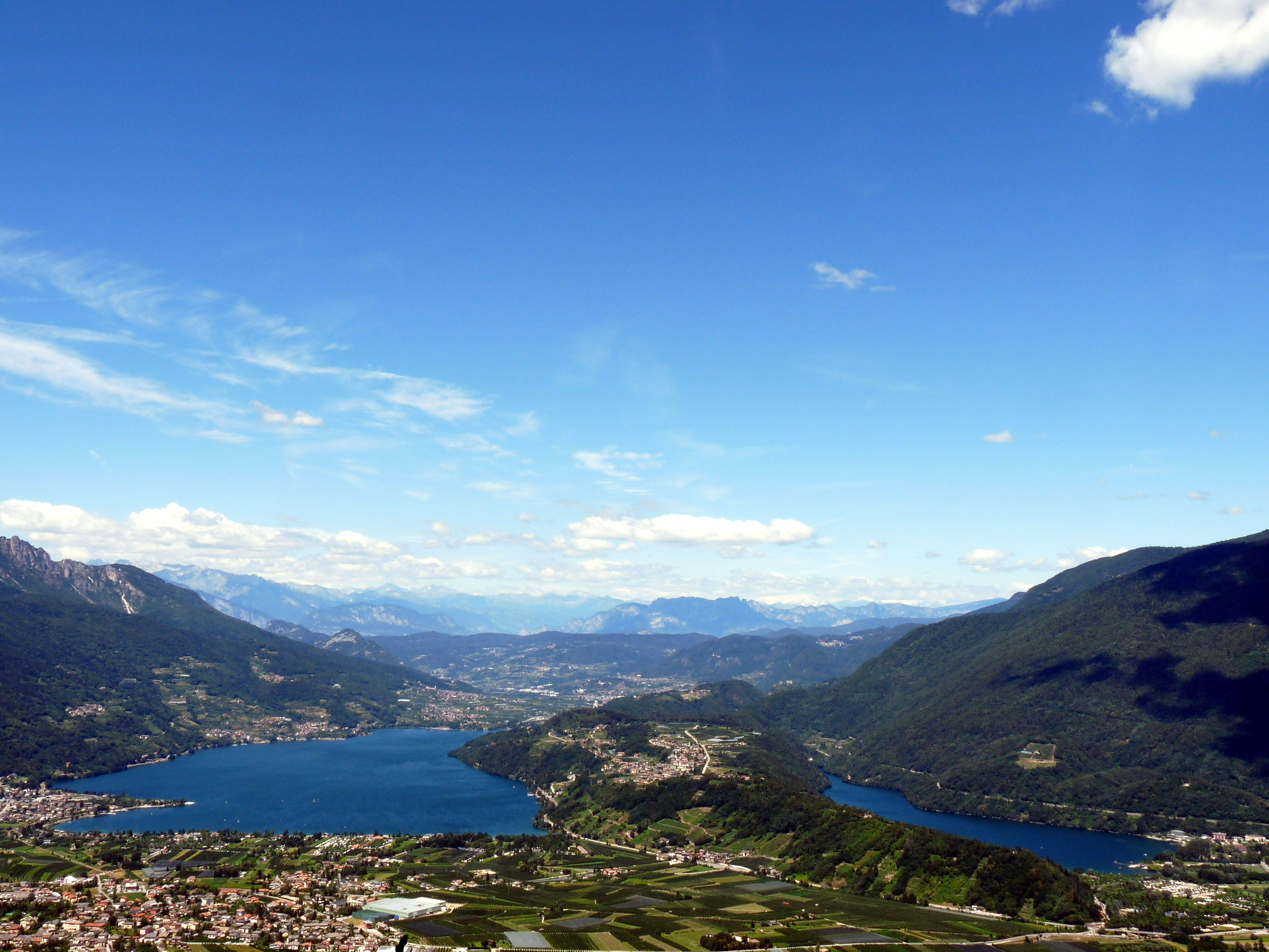 Tenna (Italy): view of Tenna between lake Caldonazzo (on the left) and lake Levico (on the right).